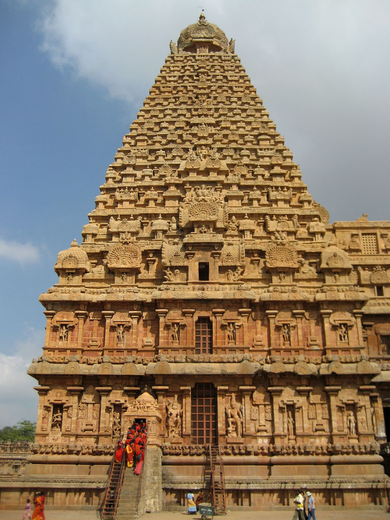 People entering the main temple.